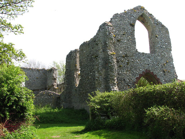 The ruins of St Mary's Priory Viewed from the northwest. Believed to have been founded by Margaret Cressey in 1216 for a small community numbering two to six Augustine canons (ordained priests who lived according to the rules of St Augustine and served as parish priests for nearby churches). In all probability the adjoining land was farmed by monks; the precinct consisted of agricultural buildings, brewery, guest house, wash house, latrines and probably a smithy. The priory was dissolved in 1539. Its church survived because it was converted into farm buildings. Presently owned by the Norfolk Historic Buildings Trust and in the guardianship of the Norfolk County Council, the ruin is accessible via a public footpath. Entering through the main west entrance, one steps into the nave with a side chapel to the north; the church was of a cruciform shape and the crossing (underneath the tower) was located at the eastern end of the nave. There used to be a north and a south transept, and a chapter house adjacent to the latter. The east end was formed by the presbytery, there was another chapel east of the north transept.